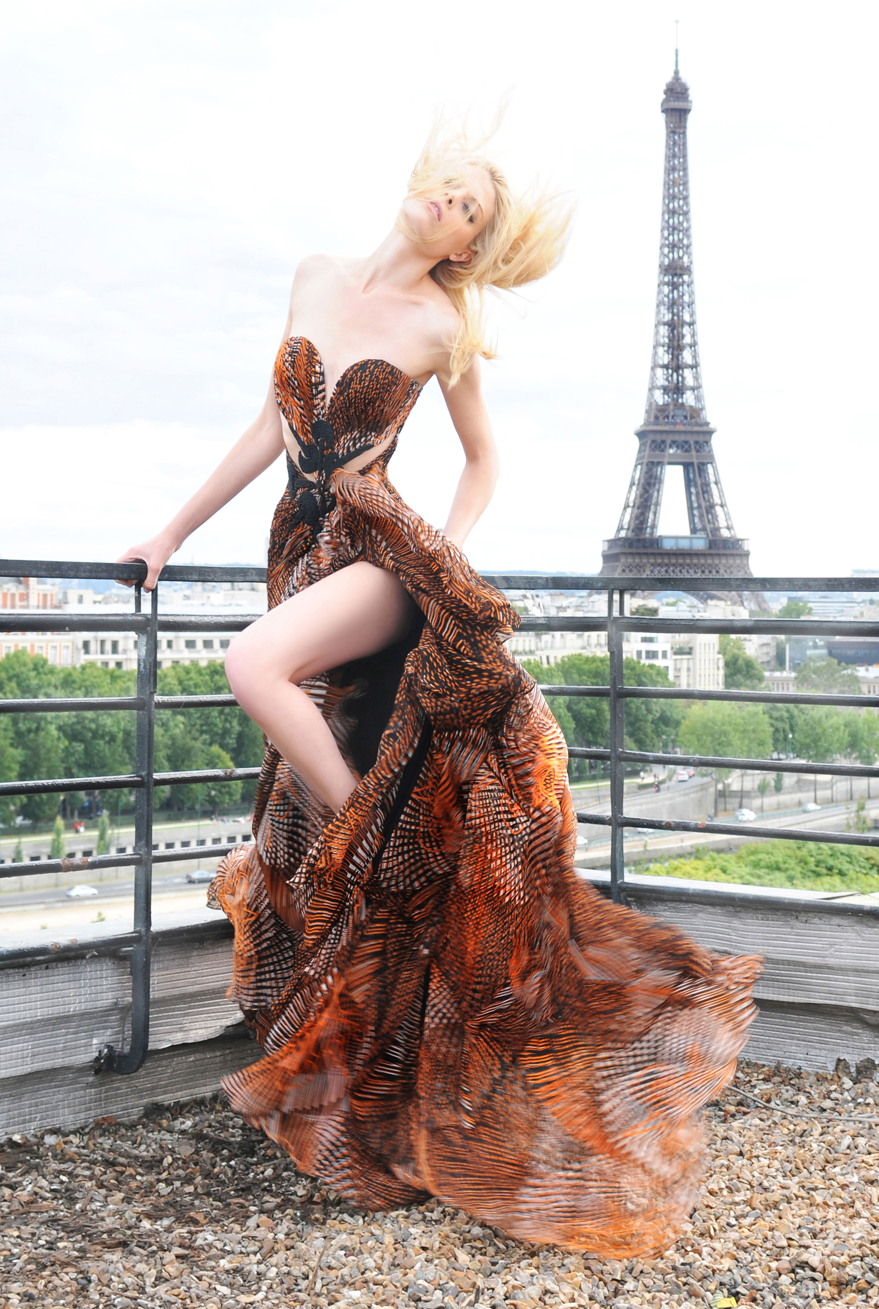 Cinetique 2014